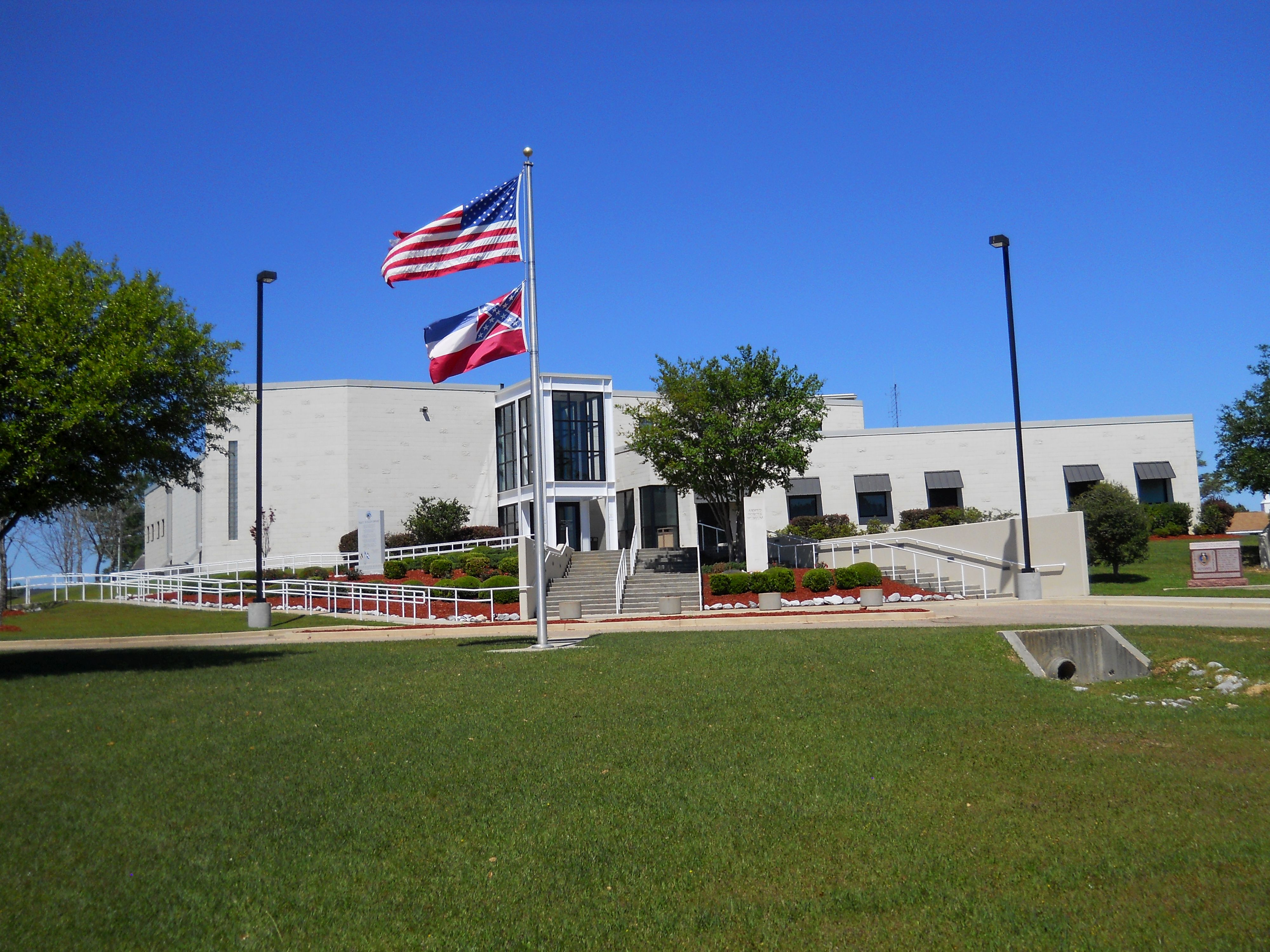 Mississippi Armed Forces Museum at Camp Shelby, Forrest County, Mississippi.